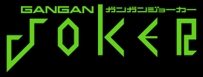 Gekkan Gangan Joker (月刊ガンガンJOKER) logo.